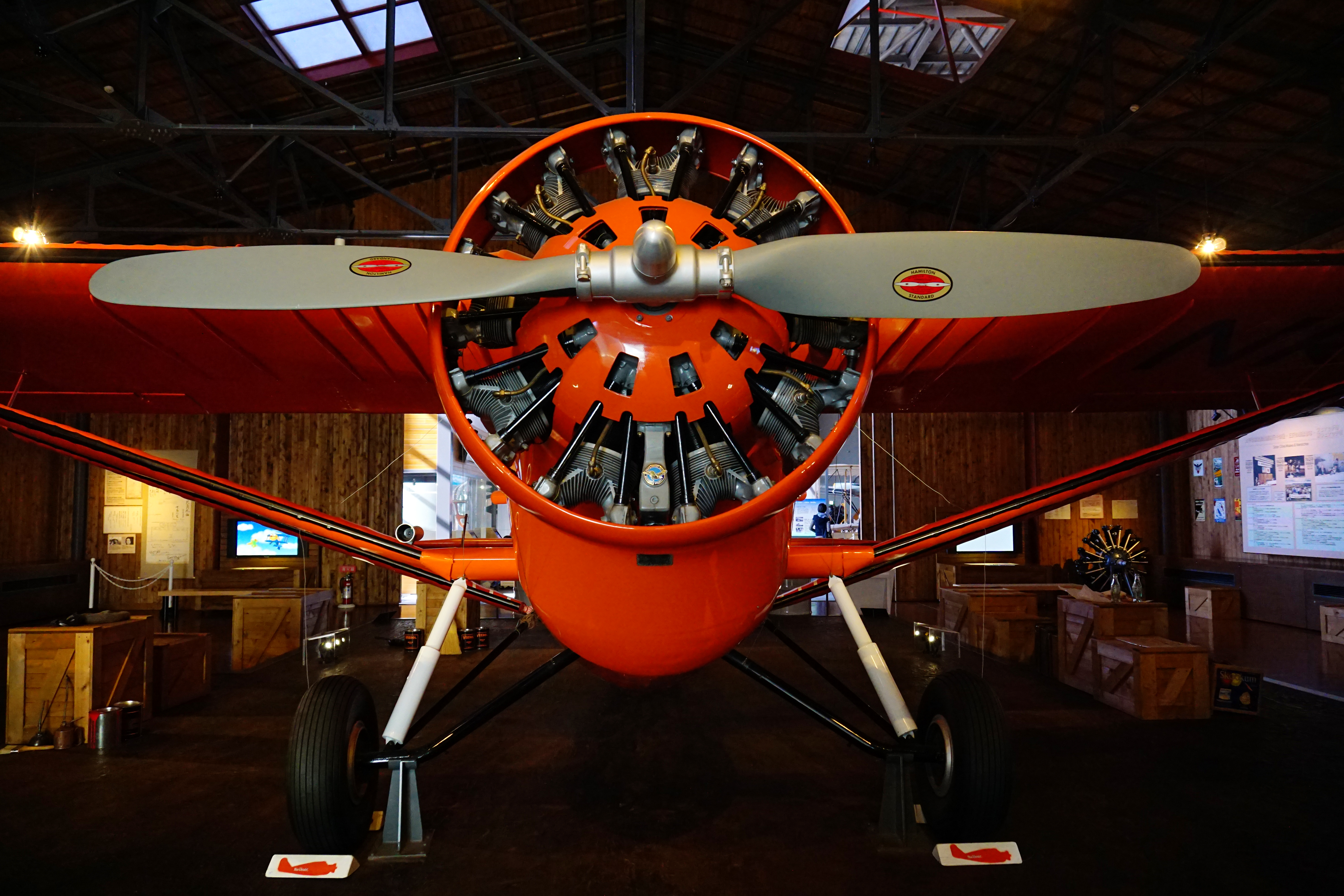 At Misawa Aviation & Science Museum, Aomori in Misawa, Aomori prefecture, Japan.